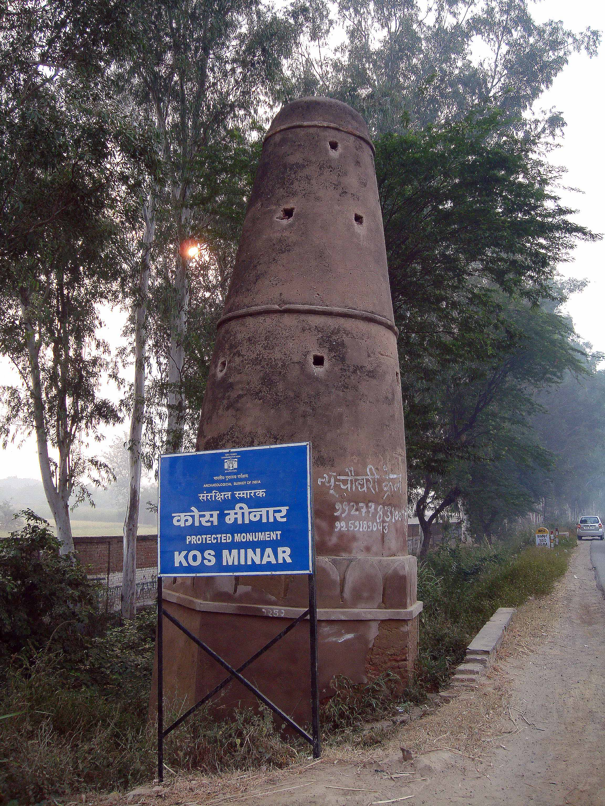 N-HR-20 Kos Minar No. 19 Palwal Faridabad